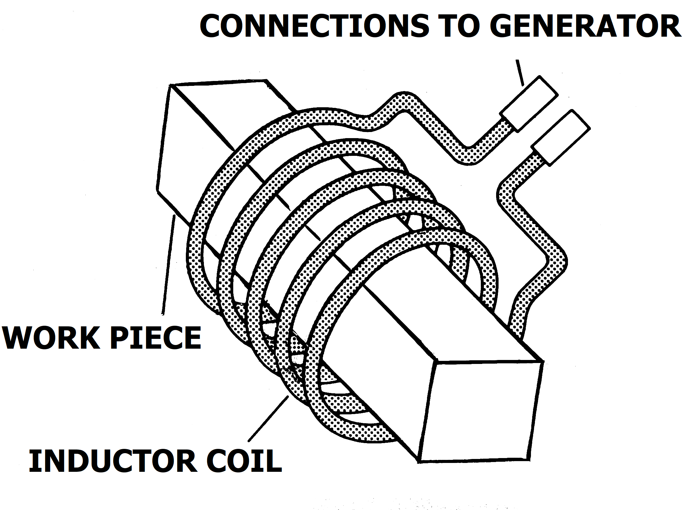 A work piece that are super heated using induction heating